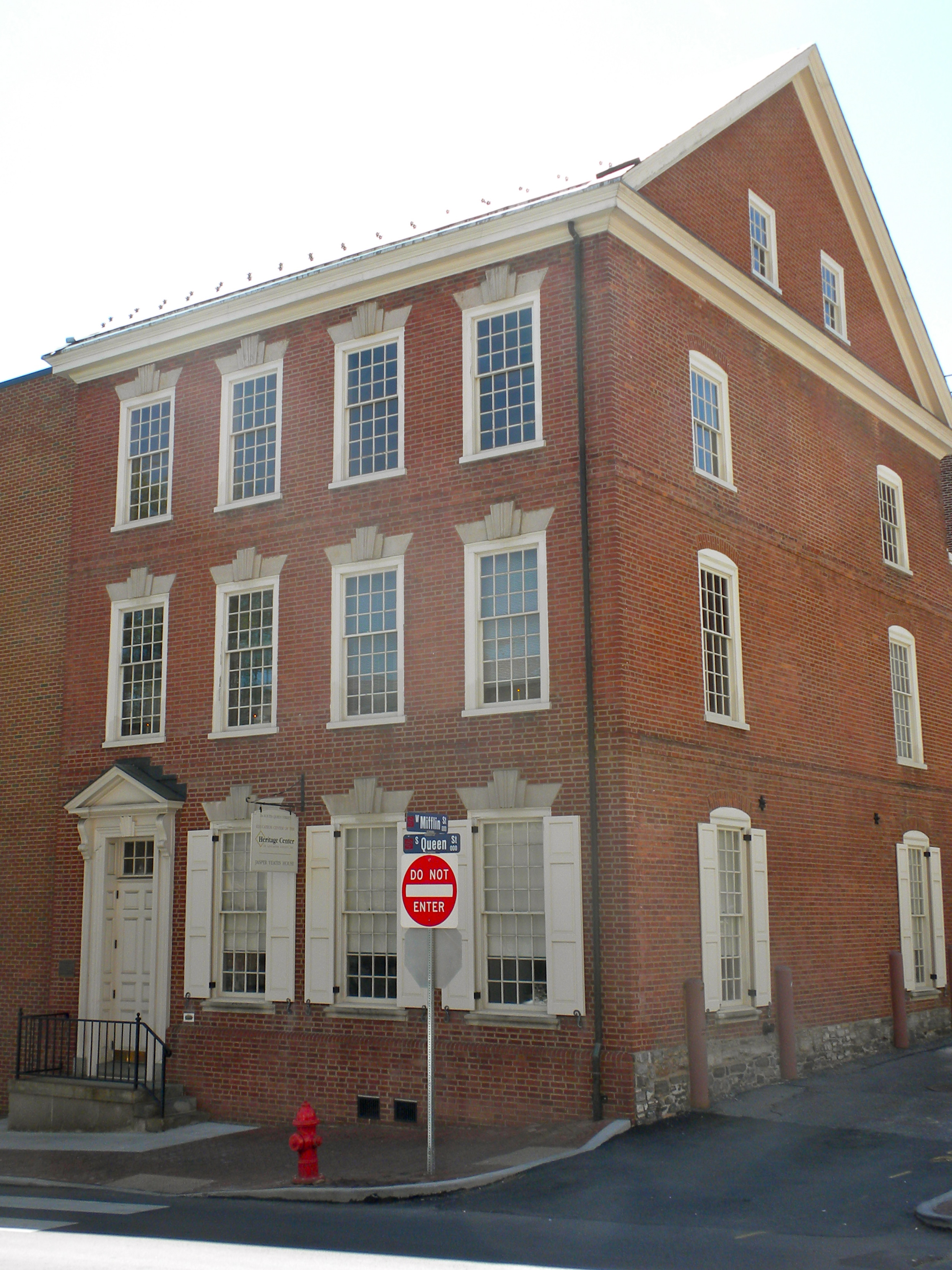 Jasper Yeates House on the NRHP since September 23, 1982. At 24 South Queen Street in central Lancaster (city), Pennsylvania. Now houses a Preservation Society